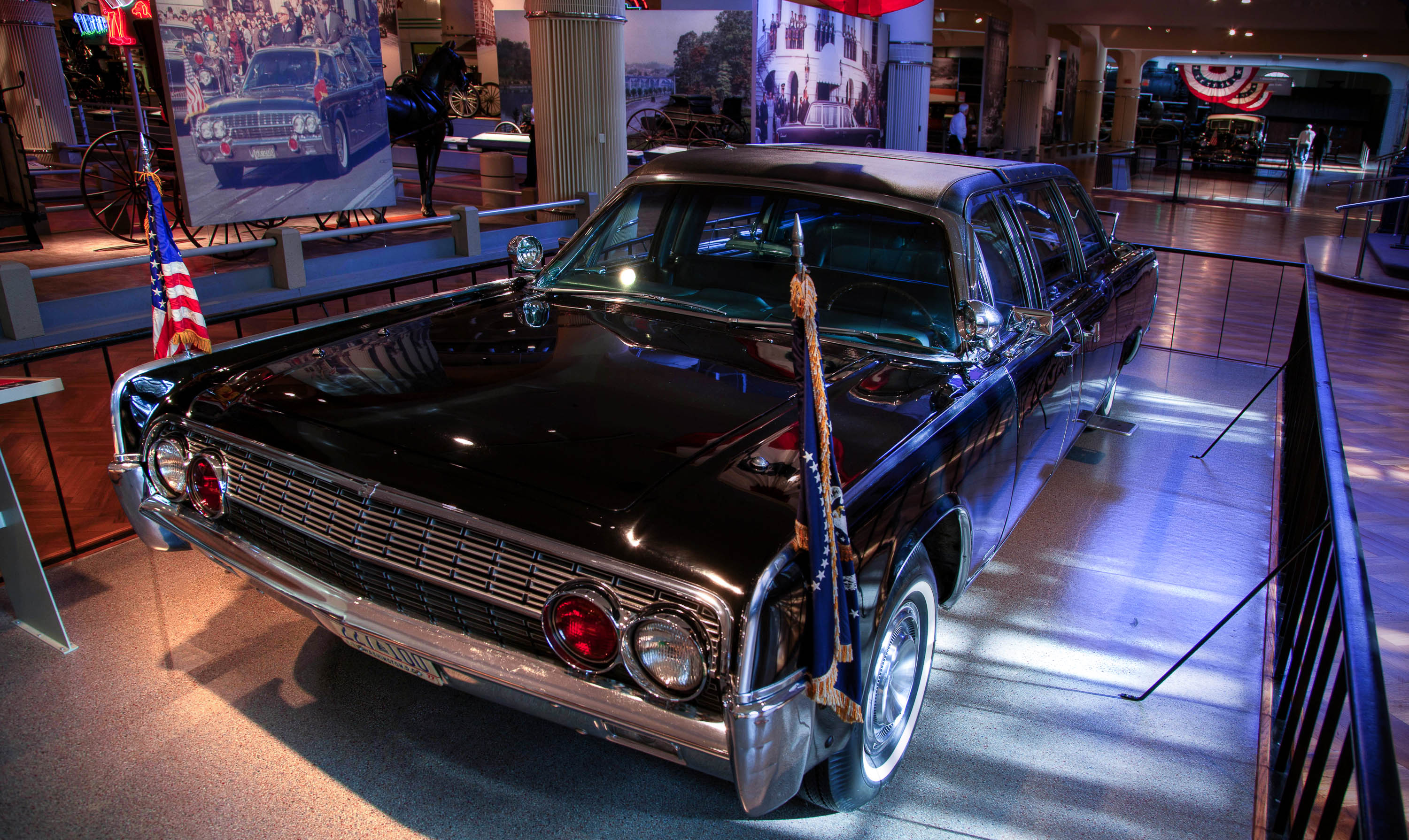 President John F. Kennedy was riding in the automobile when he was assassinated. The car is now stored in the Henry Ford Museum in Dearborn, MI.